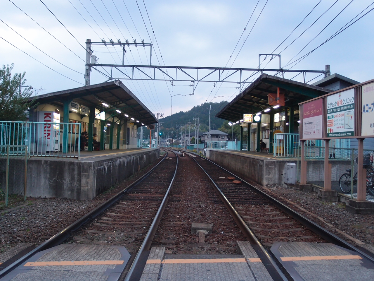 Eizan Electric Railway, Kyoto, Japan.